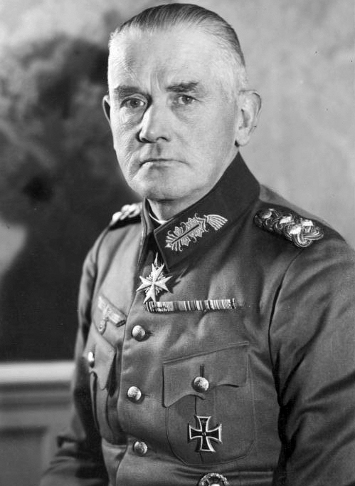 Cropped portrait of German Minister of War, Generaloberst Werner von Blomberg